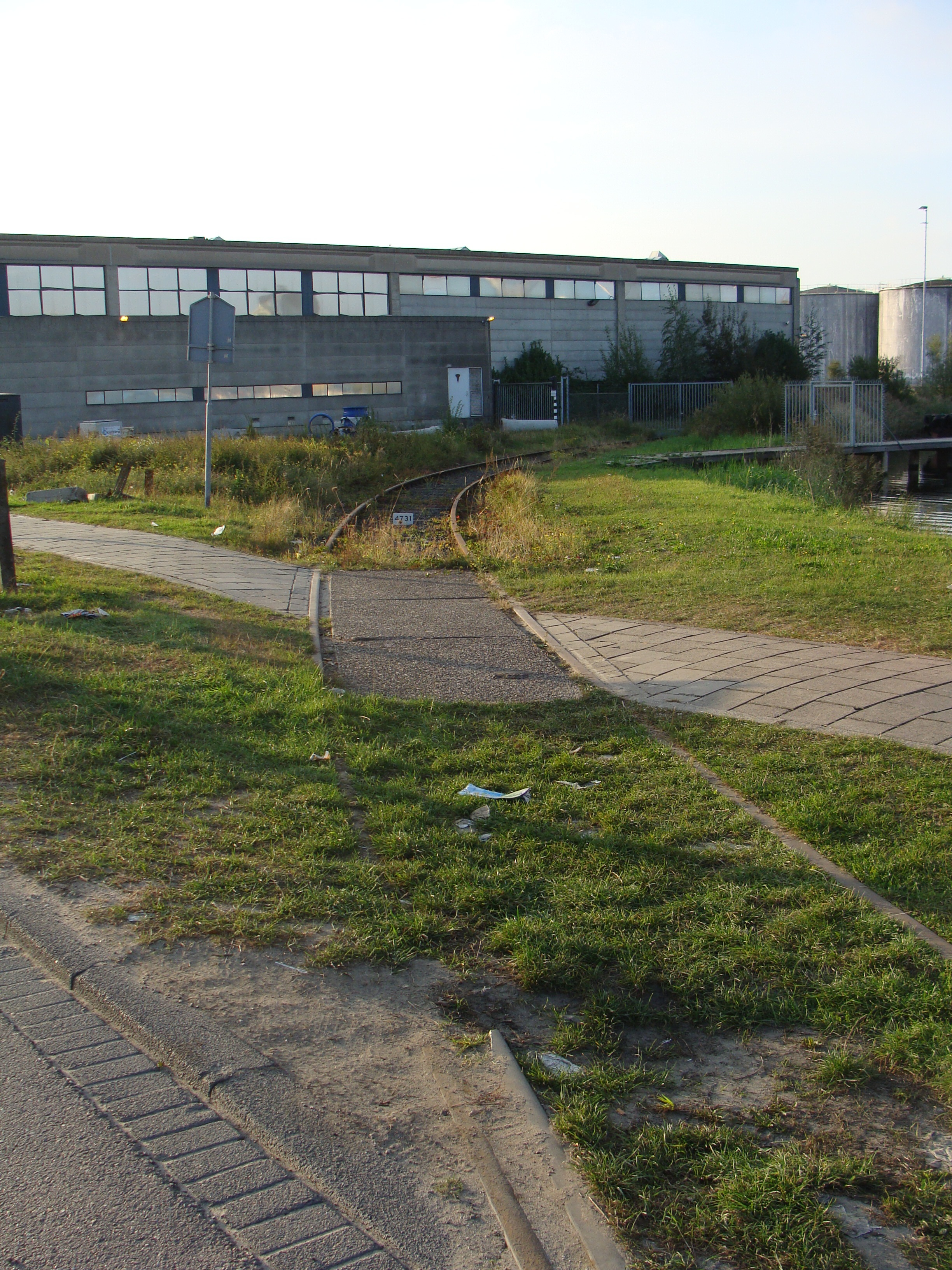 Disused rail siding in the port of Amsterdam